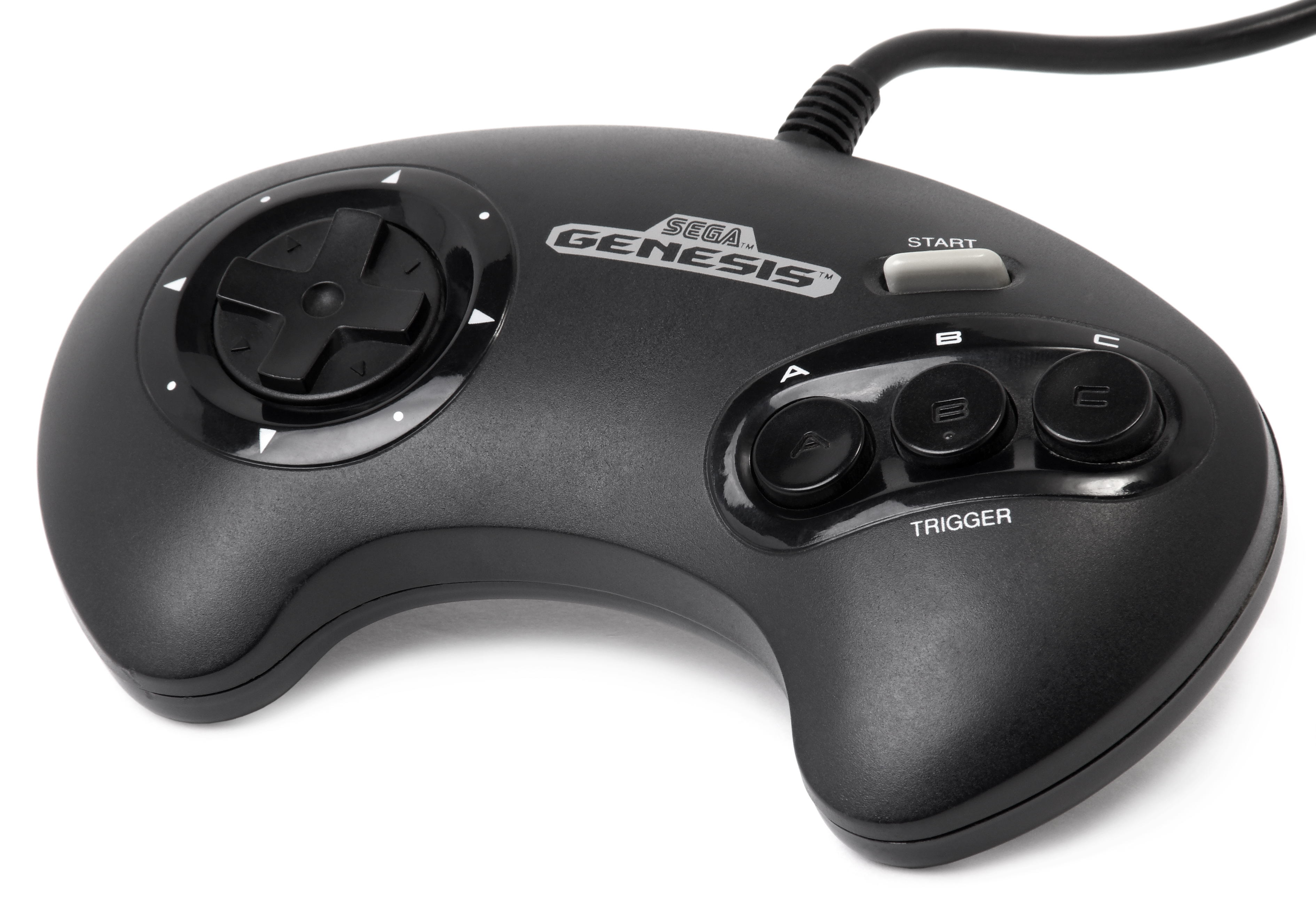 A Sega Genesis 3 button controller.